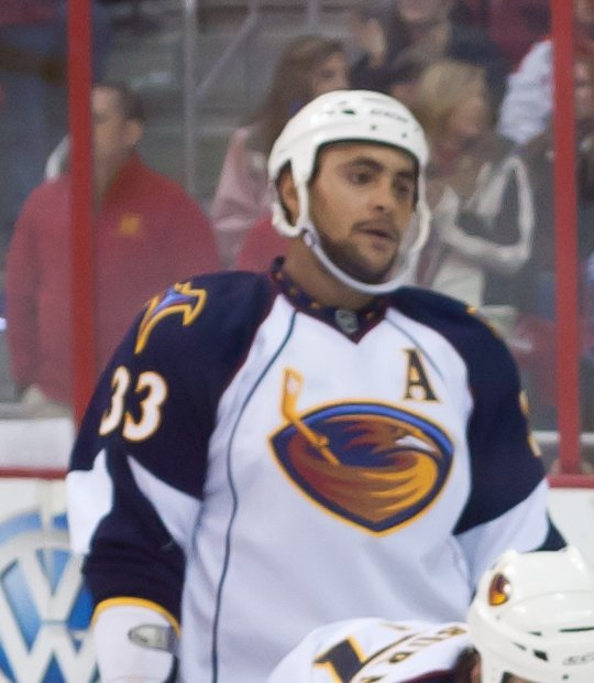 Face-off